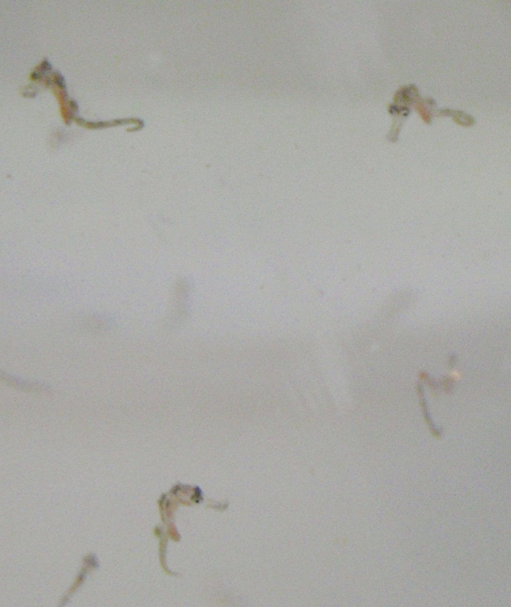 crias de Hippocampus patagonicus